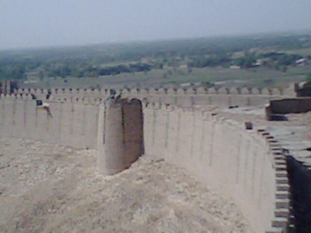 The top of fort where soldiers takes position. The picture is take from the top from where all the surroundings where monitored.